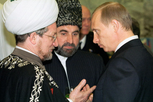 THE KREMLIN, MOSCOW. President Putin with Magomed-Khadzhi Albogachiyev, the Mufti of the Republic of Ingushetia and Chairman of the Muslim Coordinating Centre in the North Caucasus (centre), and Mufti Talgat Tadzhuddin, head of the Muslim Council of Russia and the European CIS countries, at a reception to mark the 57th anniversary of victory in the Great Patriotic War.